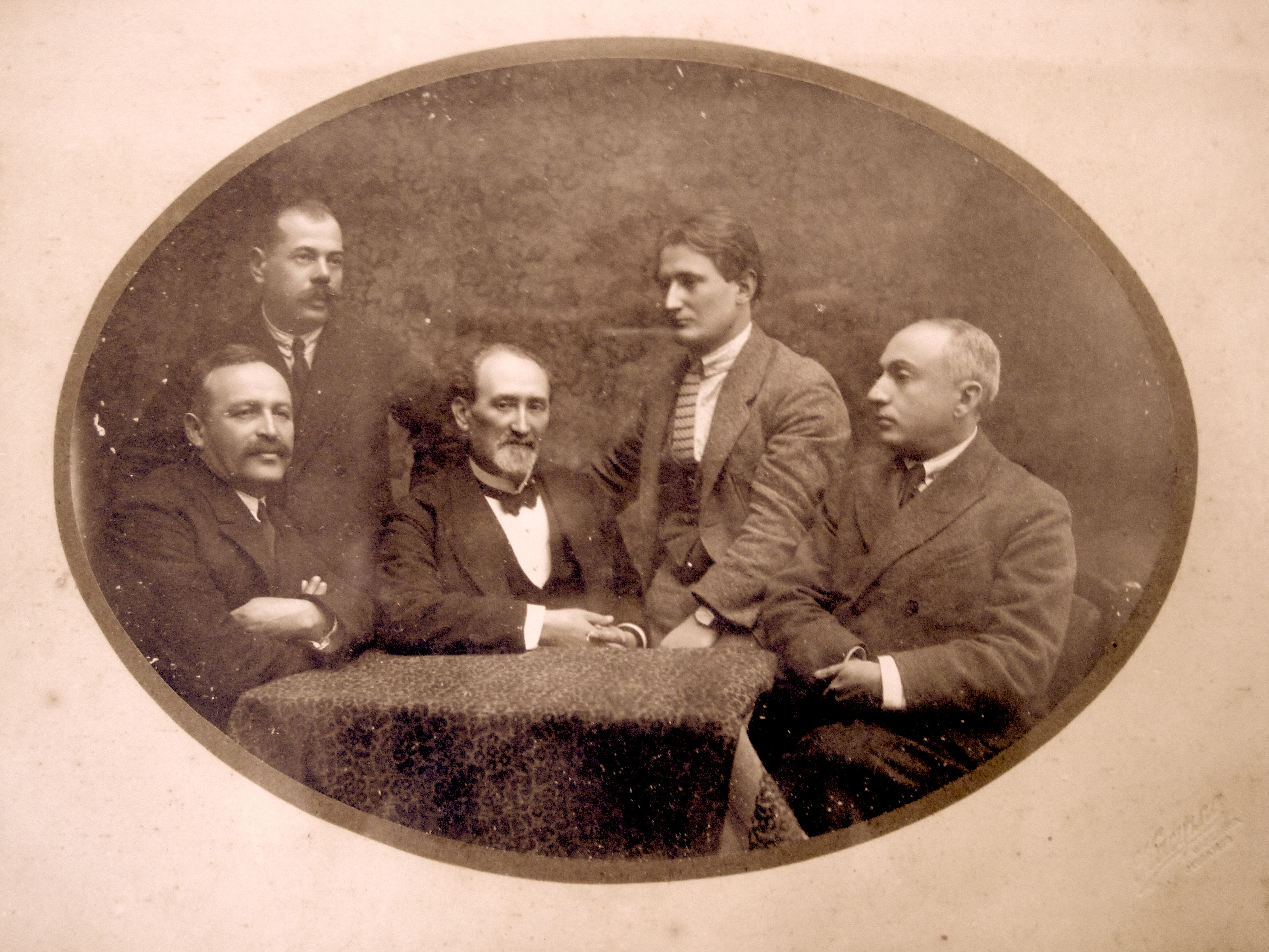 Group photograph of the Partners of Warsaw “Central” Publishing Company. R-L: Benjamin Szymin (Binyomin Shimin), Yakov Lidsky, Ben-Avigdor (Avraham Leib Shalkovich), Mordechai Kaplan, Shloyme (Shlomo) Sreberk.